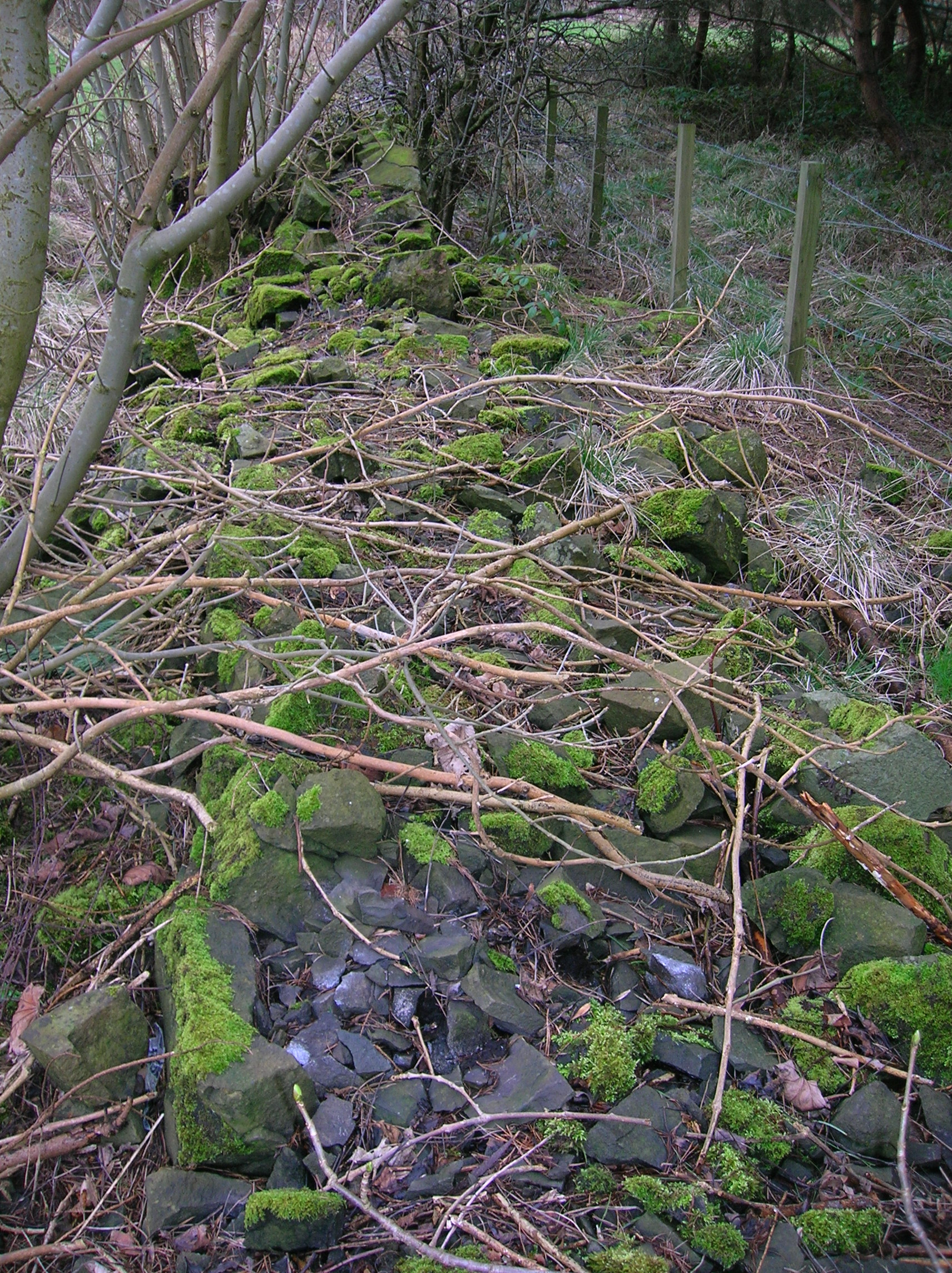 Remains of the march dyke near Littlestane Farm, Irvine, North Ayrshire, Scotland